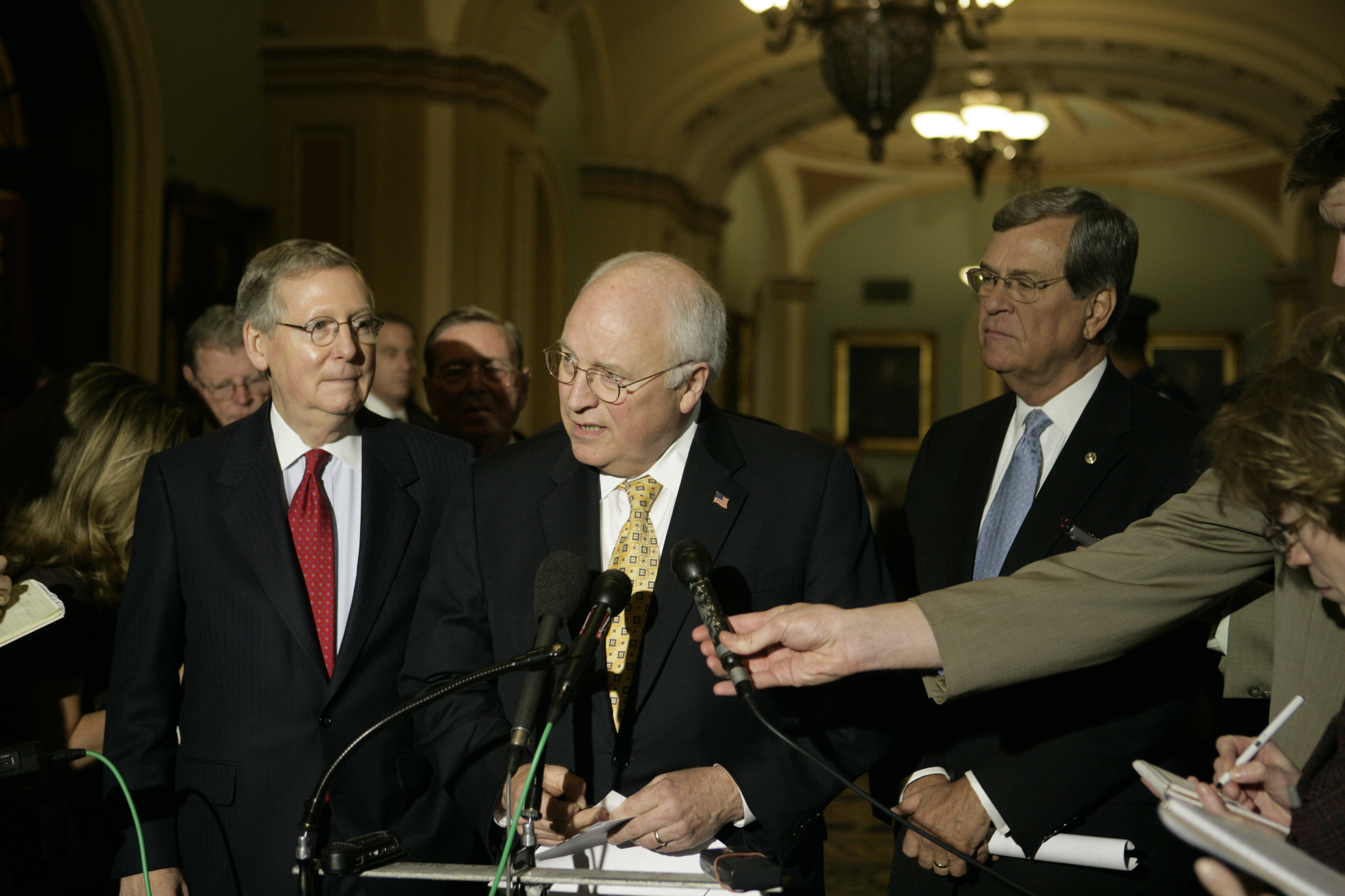 Vice President Dick Cheney Addresses the Press with Senate Minority Leader Mitch McConnell and Senator Trent Lott at the U.S. Capitol Building, 4/24/2007